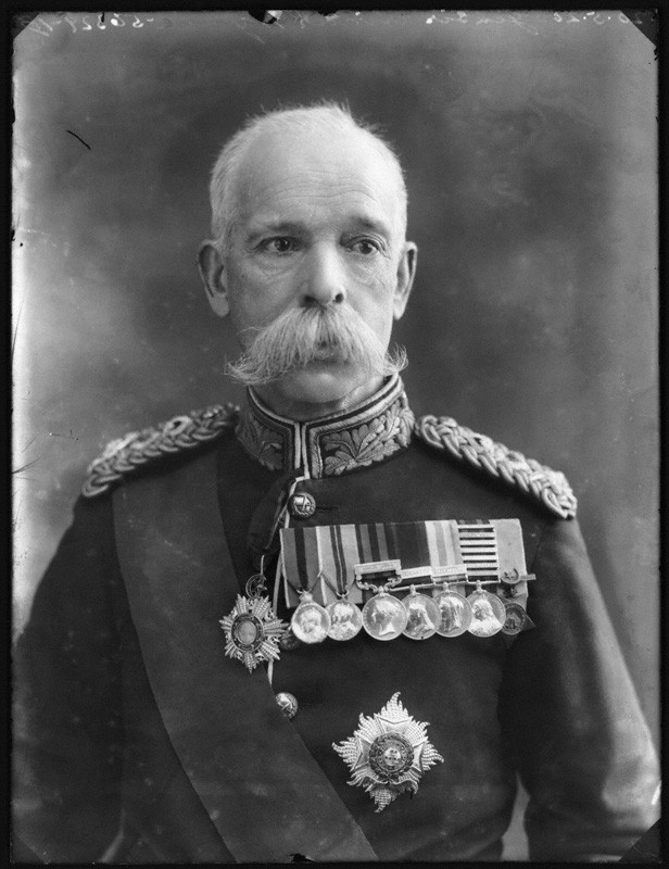 Portrait of Sir Arthur Wynne.